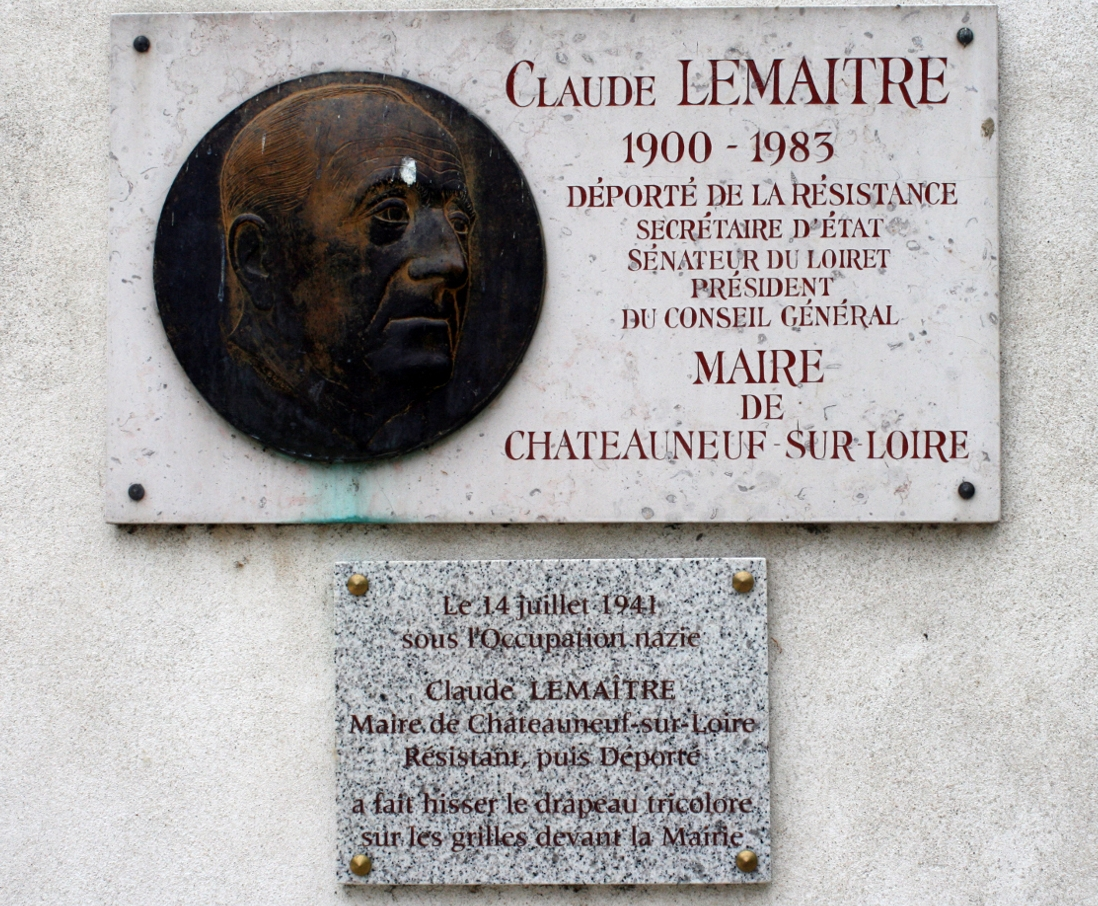 Plaque commémorative de Claude LEMAITRE-BASSET inaugurée le 14 juillet 2011 à la mairie de Châteauneuf-sur-Loire.